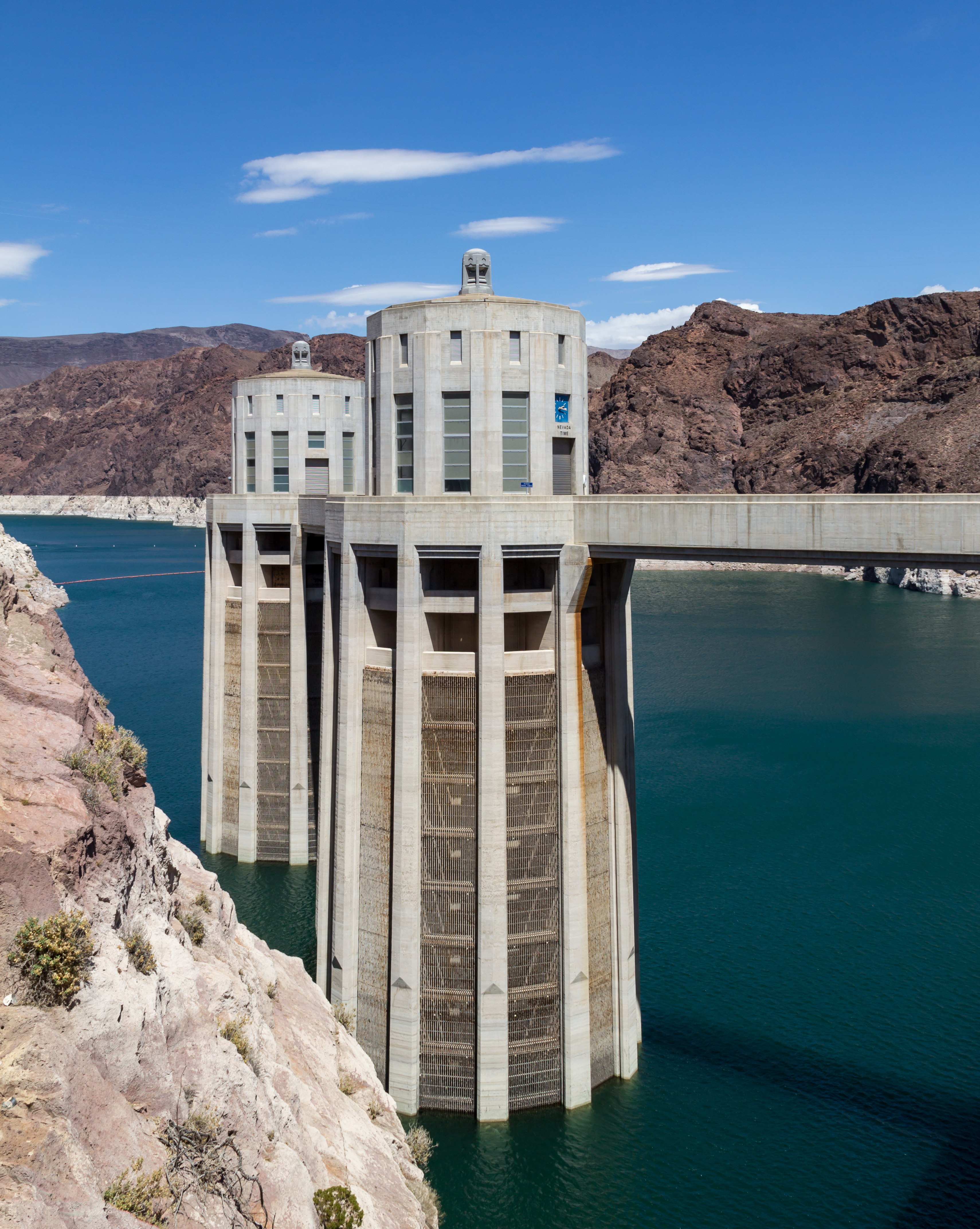 Intake towers of the Hoover Dam on the side of Nevada (Nevada/Arizona, USA)